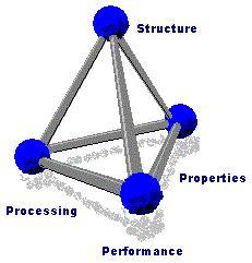 This shows the materials science tetrahedron, which illustrates how a material's properties, processing, performance, and structure are interrelated. It is based on its having prior use in my engineering studies as a teaching device and symbol of the discipline, using this file as a reference. As a second reference, see also: Suk-Joong L. Kang, Sintering: Densification, Grain Growth and Microstructure, Butterworth-Heinemann, 2004. ISBN 0080493076. p. 3., where it is represented a similar picture.